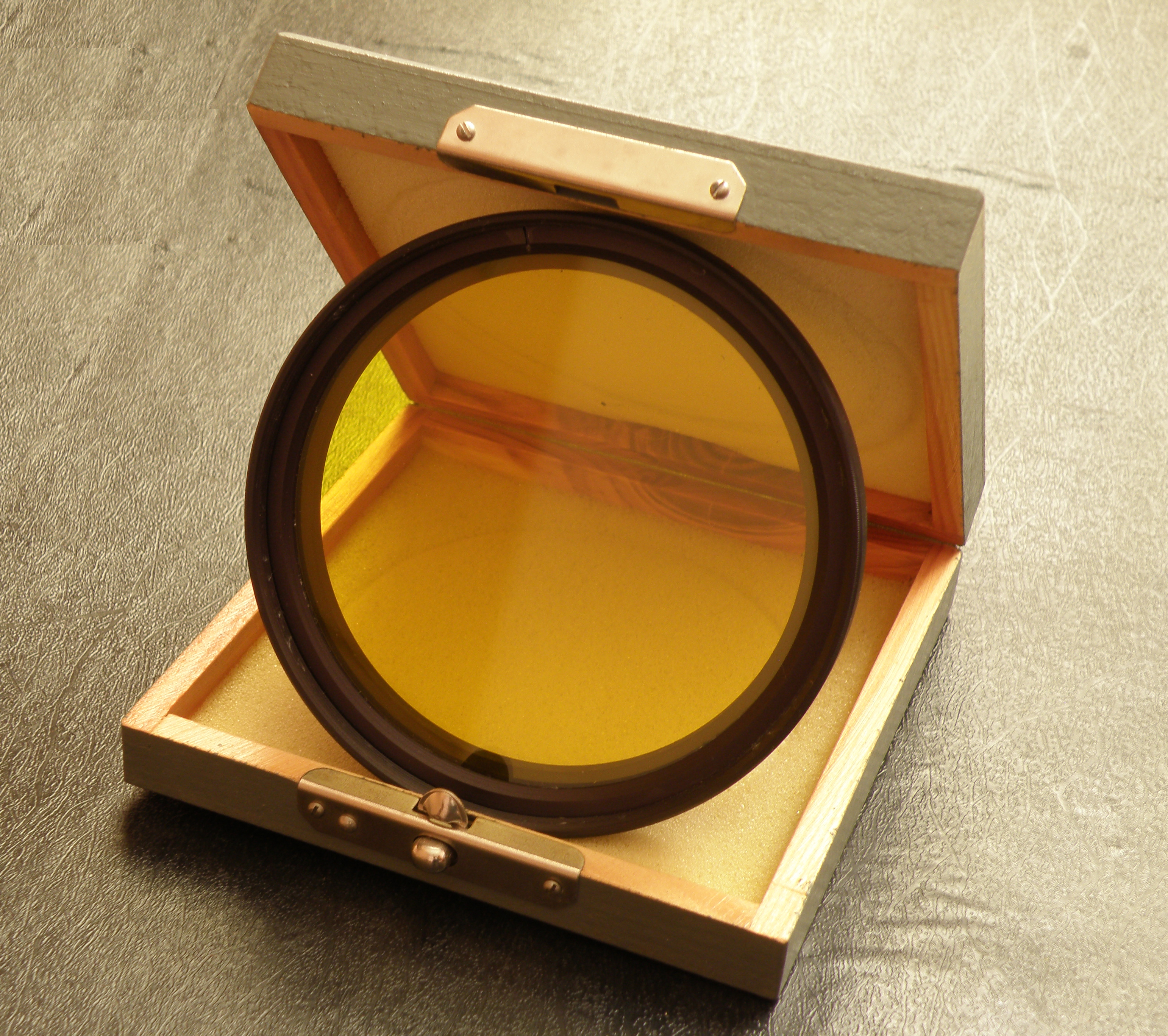 Photography Filter